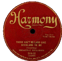 There Ain't No Land Like Dixieland To Me by the Broadway Bell-Hops under the direction of Sam Lanin, Harmony Records 1927